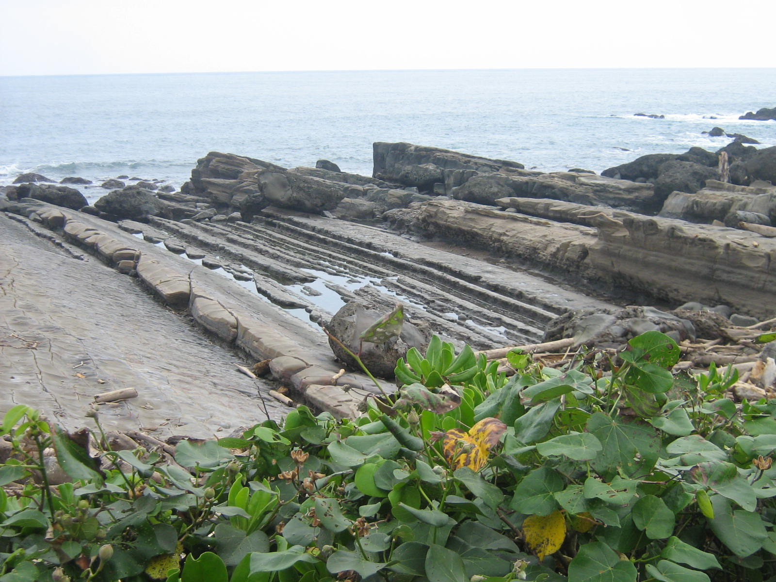 Xiao Yehliu, Taitung City, Taitung County, Taiwan